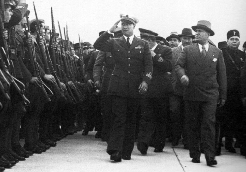 Galeazzo Ciano and Benito Mussolini inspecting troops returned from Italian East Africa - Brindisi, May 17th 1936